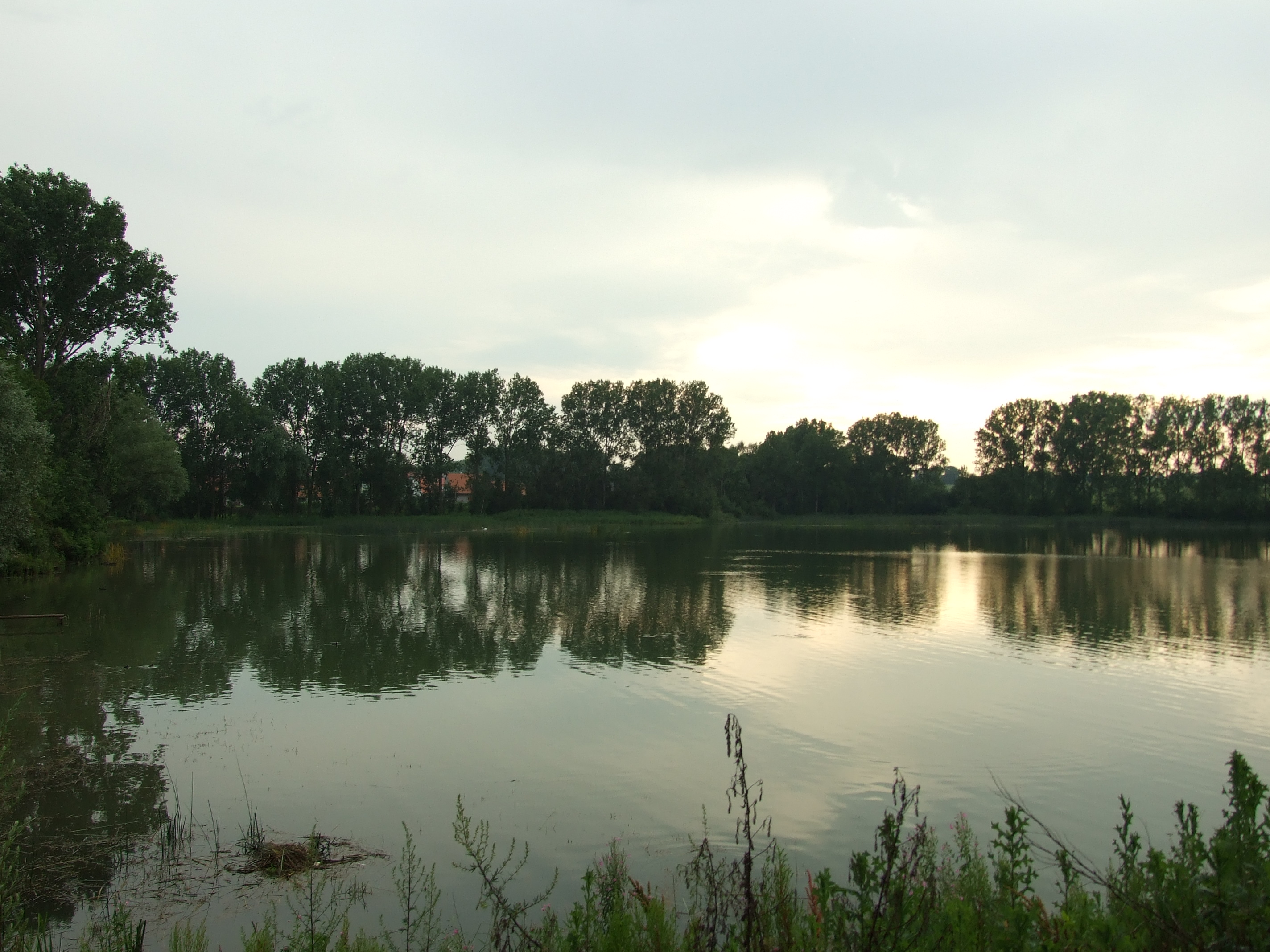 Town of Chýně near Prague and Kladno in Central Bohemian region, CZhelp